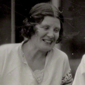 Lella Secor Florence (February 13, 1887 – January 14, 1966), née Lella Faye Secor, was an American writer, journalist, pacifist, feminist and pioneer of birth control by Unknown photographer, vintage snapshot print, late 1920s